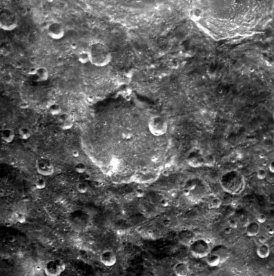 Buffon crater